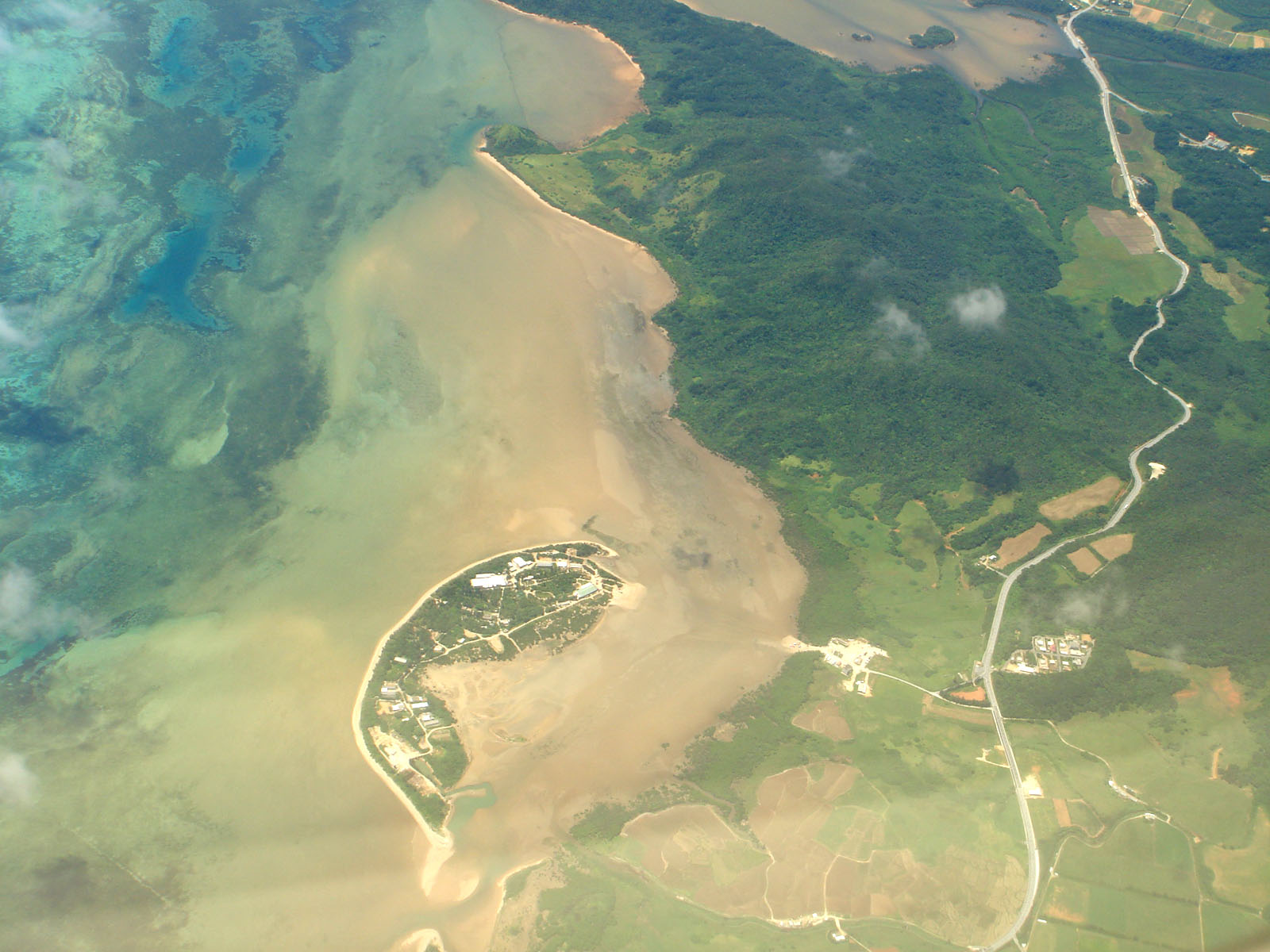 Yubu Island (center), near Iriomote Island (right), Japan / 由布島（中央）と西表島（右）